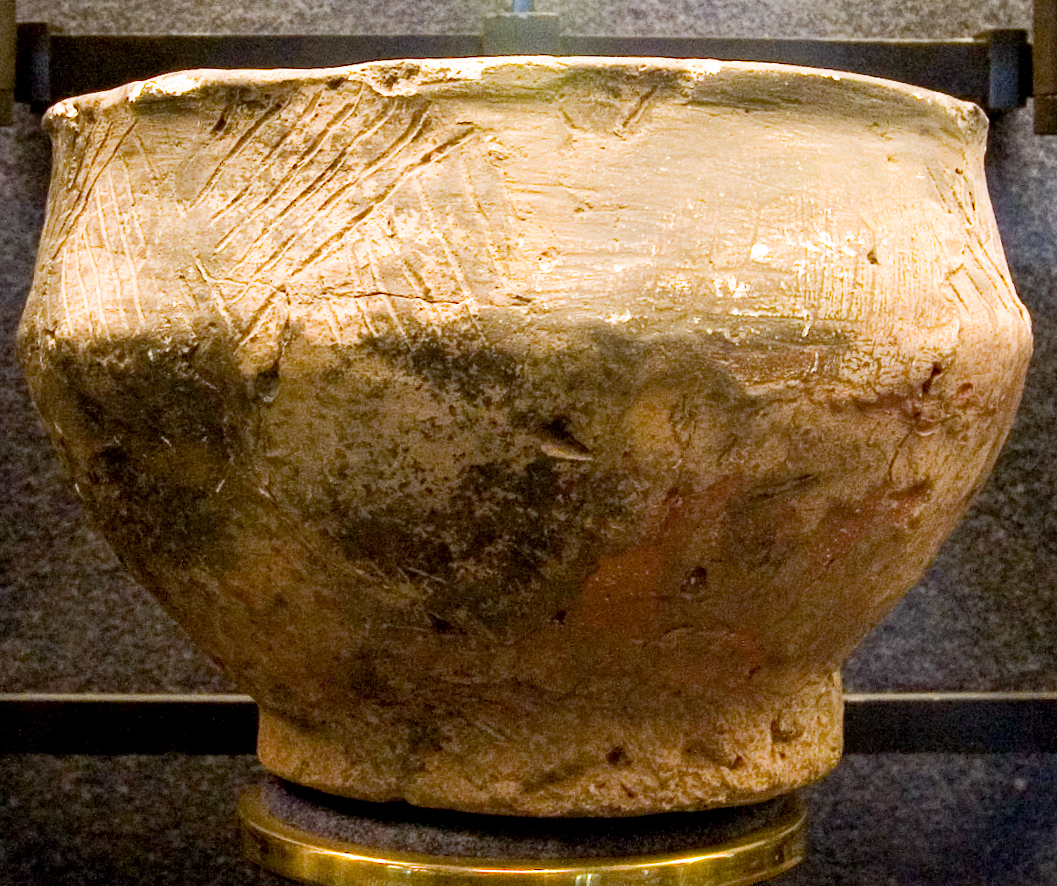 Objects found during excavations